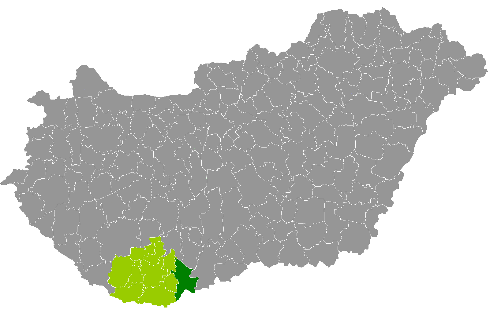 Location of Mohács District, Baranya, Hungary